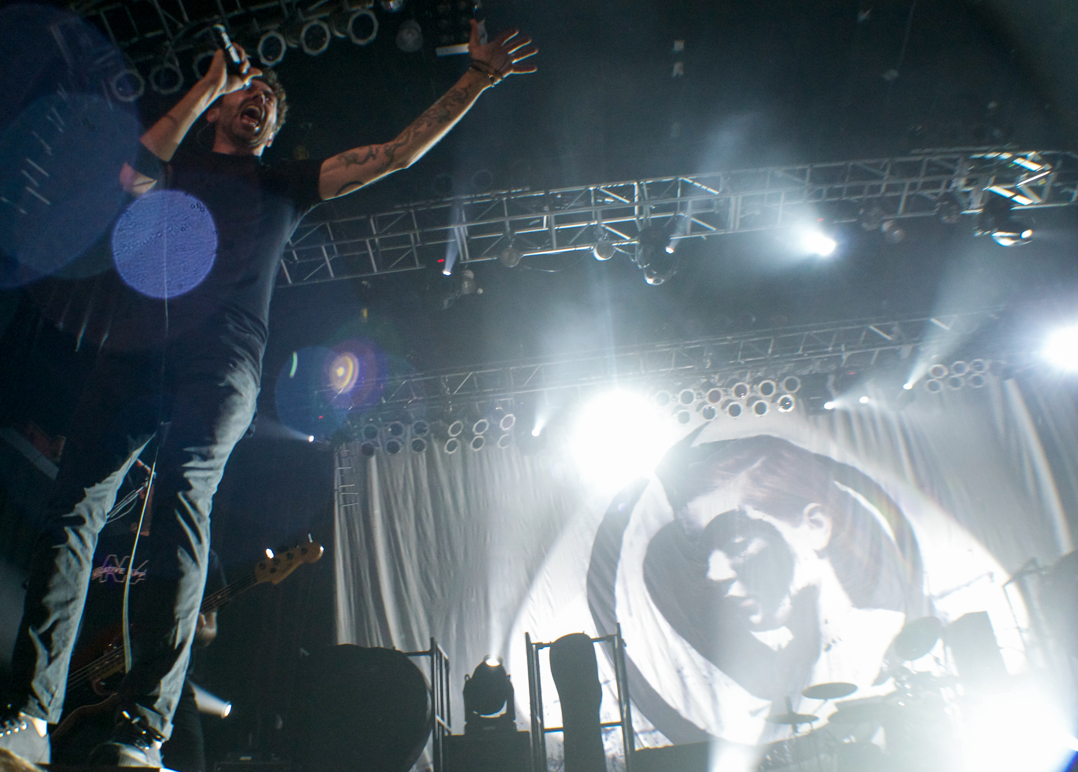 Rise Against performing at the House of Blues in Boston, Massachusetts. Photo was taken on September 29, 2014